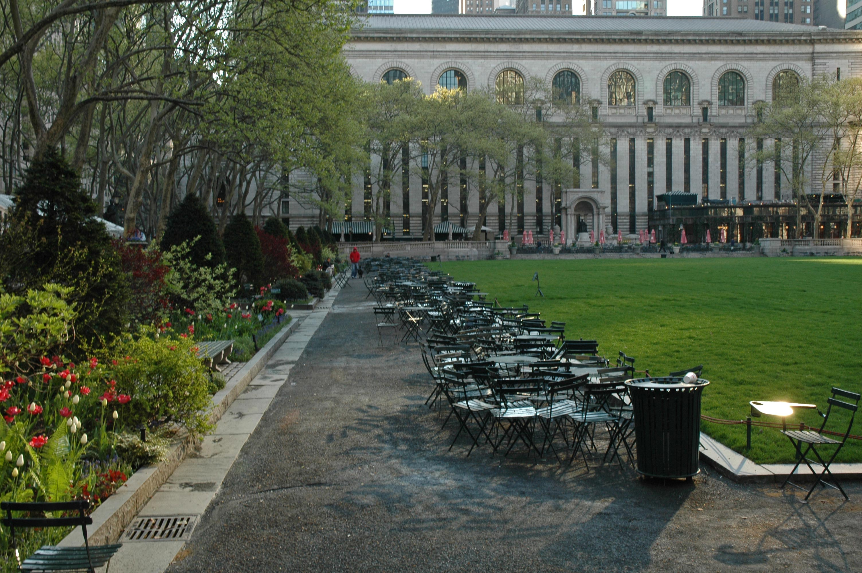 Bryant Park and the main branch of the New York Public Library, in New York City. - Classic outdoor chairs and tables Bistro by Fermob.